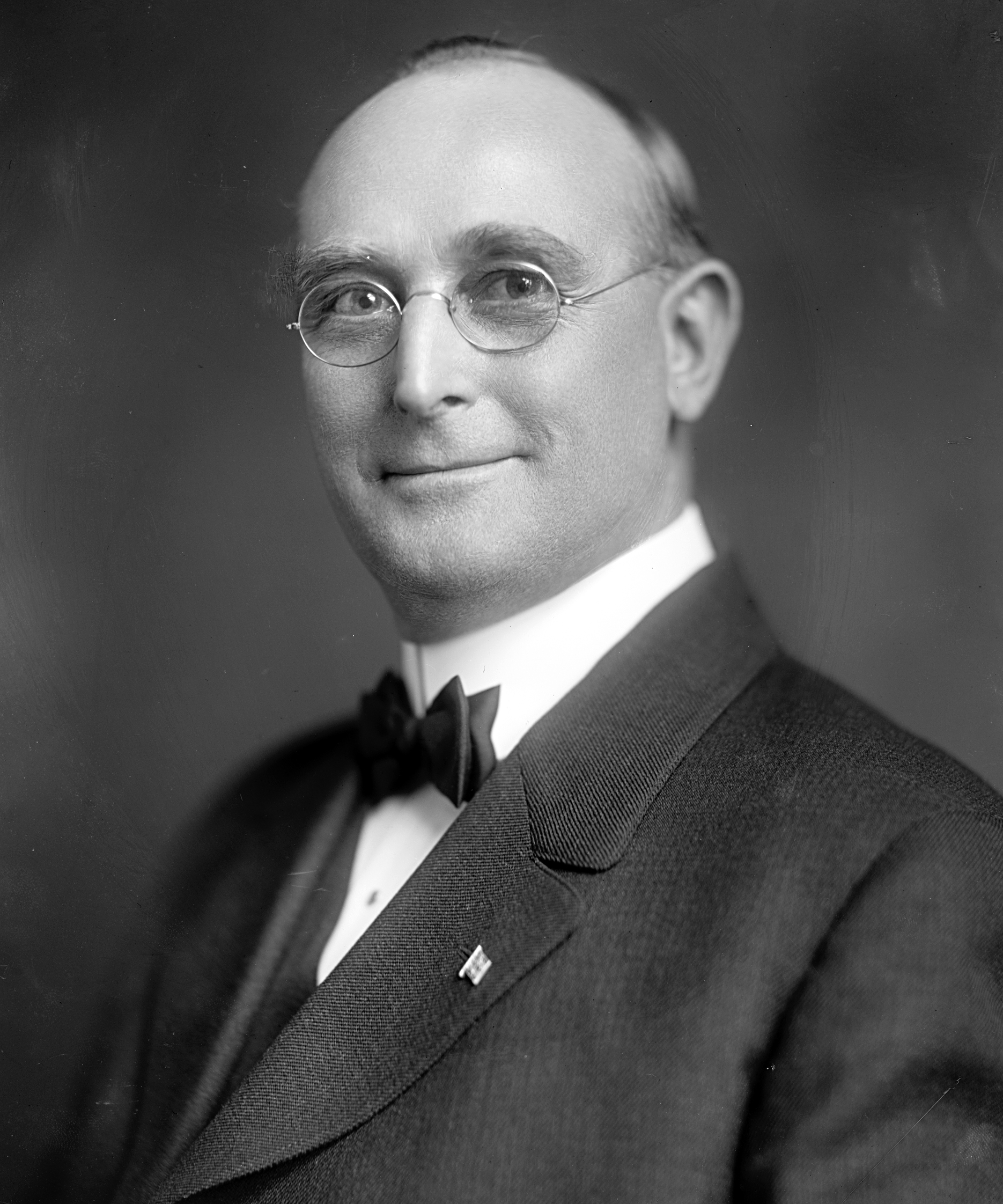 William Kettner, US Representative from California